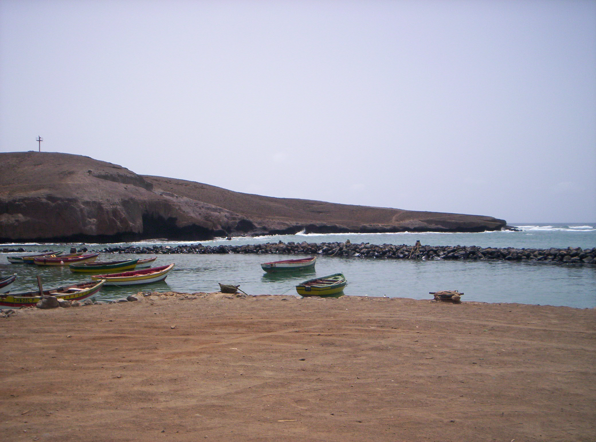 Boats at Pedra de Lume, Sal island, Cape Verde.